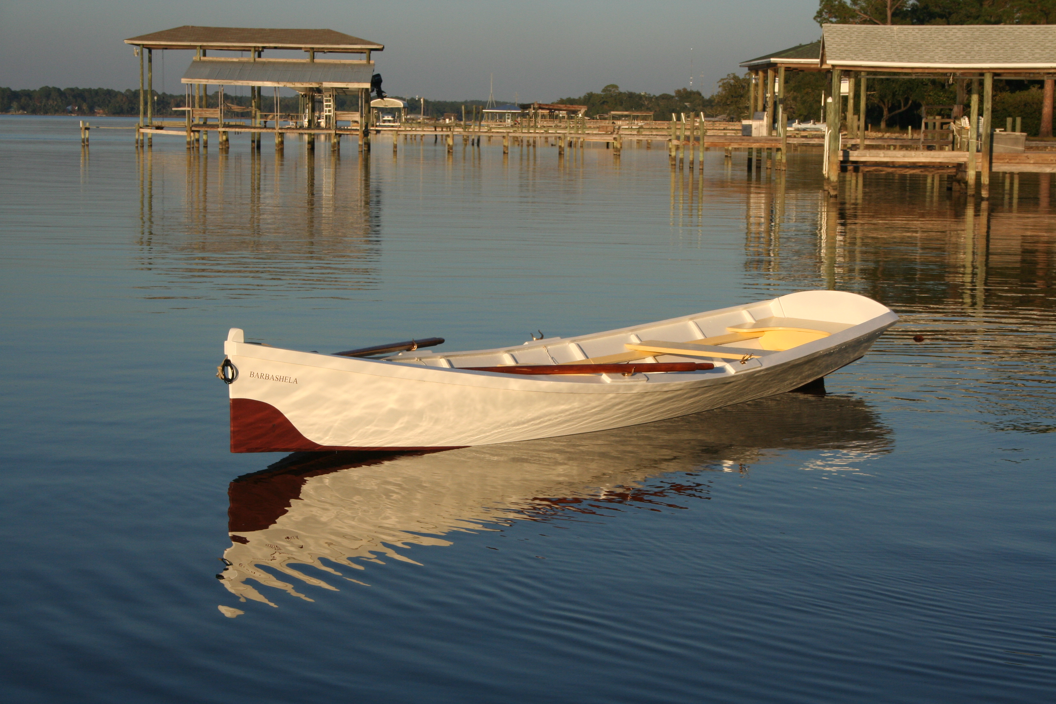 This is Varina Ann "Winnie" Davis' skiff, which she rowed at Beauvoir in the 1880s. It was designed by Captain Thomas P. Leathers of the steamboat Natchez and he oversaw the construction. The skiff is named Barbashela and it was a gift to Ms. Winnie. Barbashela was used in the Mississippi Sound and on Oyster Bayou, and WPA reports indicate she was stored on the porch of the Library Pavilion. The skiff was damaged during Hurricane Katrina, then restored in 2016 by the Lewis family Small Boat Restoration in Florida. Barbashela returned to Beauvoir in November 2016 and is on display. Skiff provenance and restoration log can be found at JPG file downloaded to Lewis macbook computer from Canon EOS Rebel